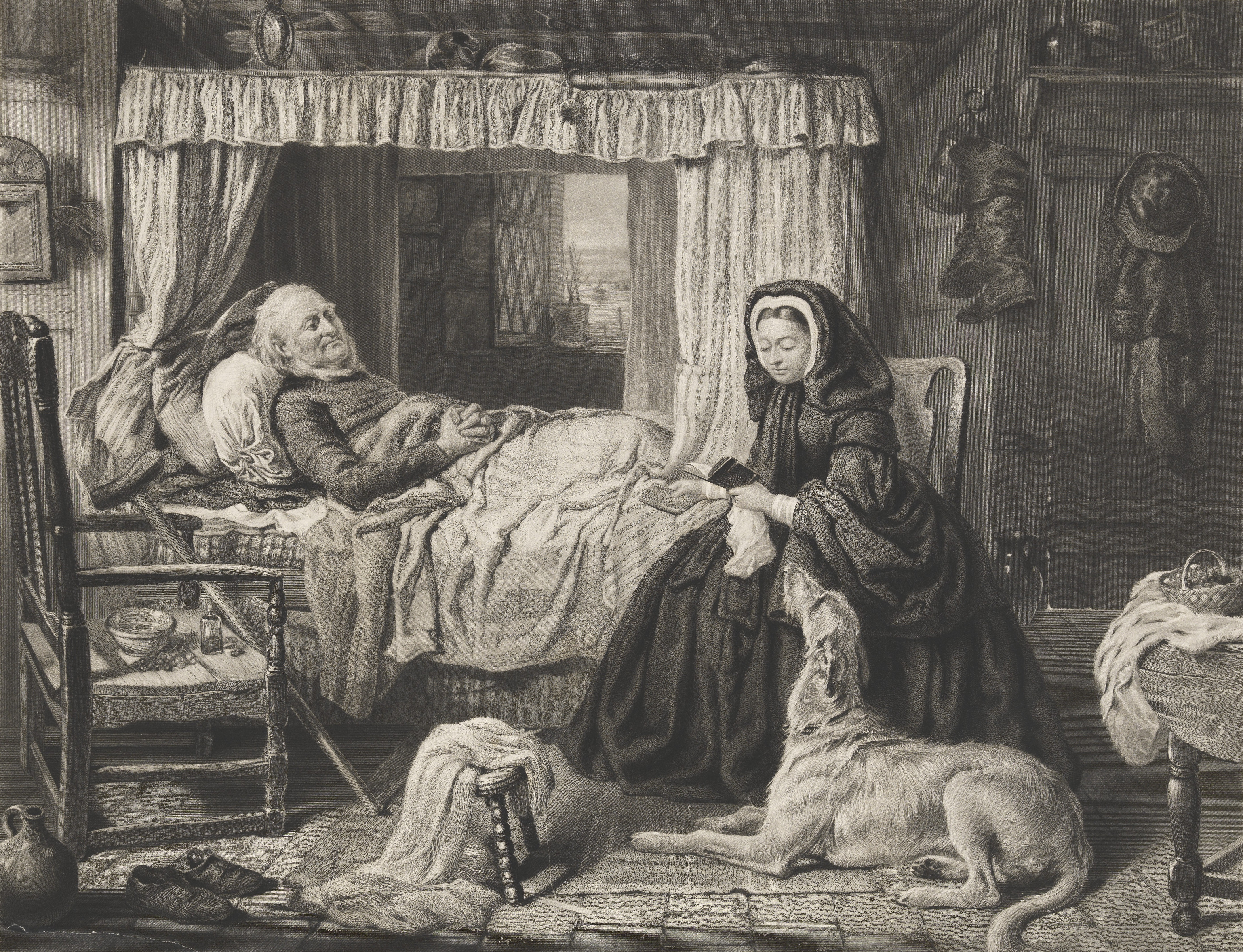 Engraving by W.H. Simmons after G. Steell, ca. 1865. One of the artist's best-known works: "A cottage bedside at Osborne" (1865; exh. Royal Scottish Academy, 1880), depicting Queen Victoria reading the Bible to a sick fisherman, which became very popular through the engraving by William Henry Simmons."--Oxford dictionary of national biography, 2004, s.v. Steell, Gourlay Alternative title: "A dying fisherman lying in bed is being consoled by Queen Victoria, seated by his side" Iconographic Collections Keywords: Gourlay Steele; name; Osborne House (Museum : Isle of Wight, England); W.H. Simmons